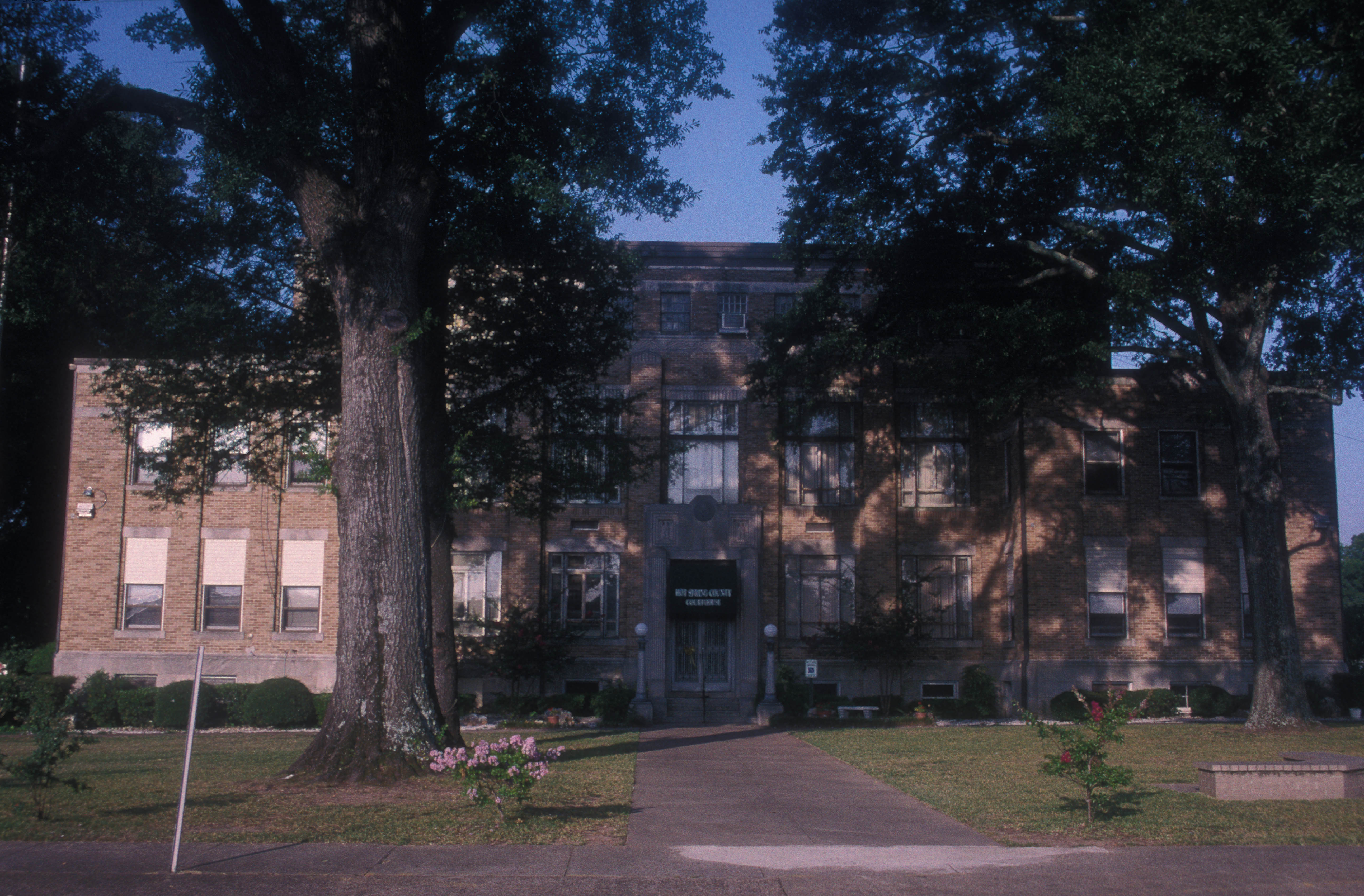 HOT SPRING COUNTY COURTHOUSE - 1936 MODERN ART DECO STYLE